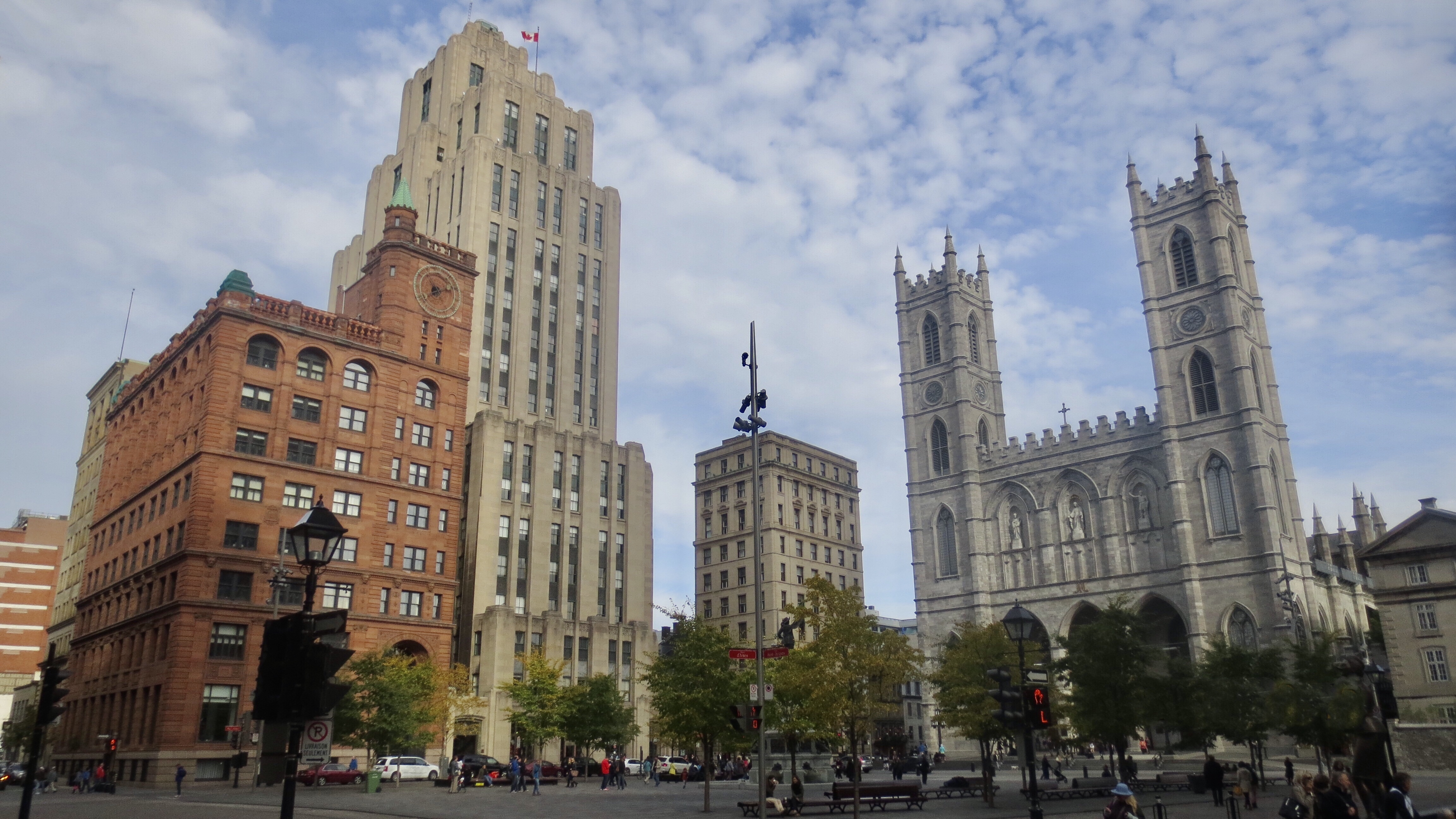 كليساي نوتردام